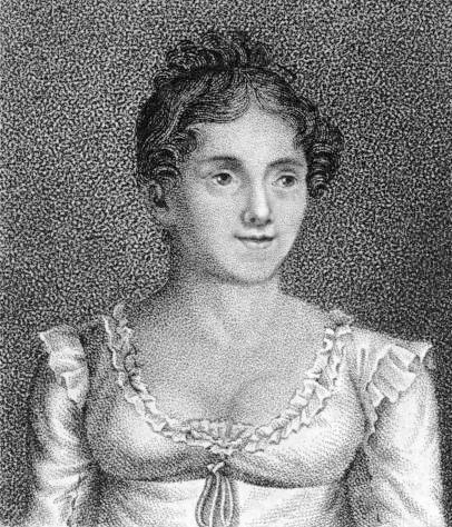 Italian opera singer Rosmunda Pisaroni (1793-1872) by Giovanni Antonio Sasso (18..-18..). Stipple engraving.